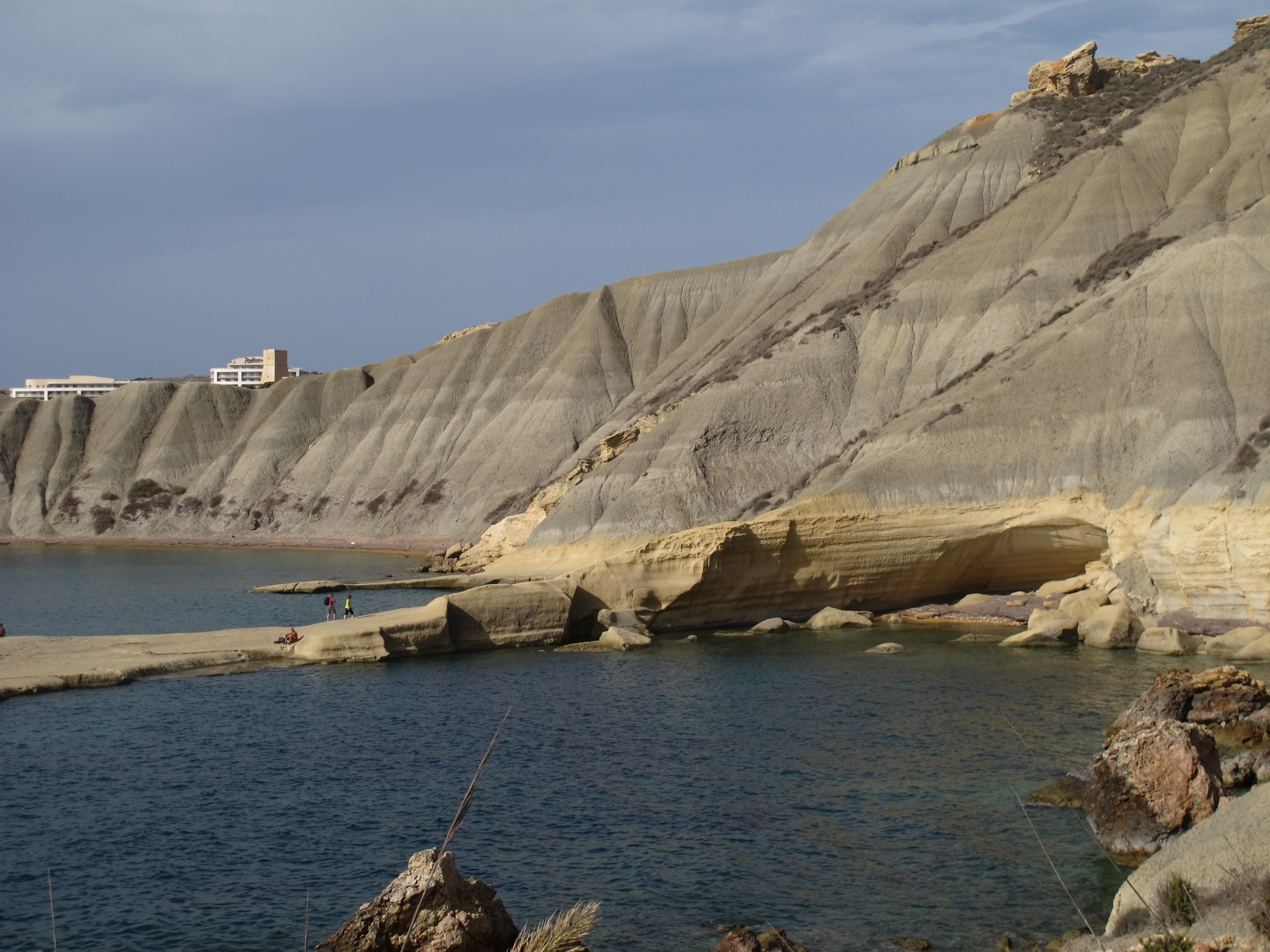 Cliffs at the northern end of Gnejna Bay on west coast of Malta, formed of the Miocene Blue Clay Formation above yellow-weathering limestones of the Upper Globigerina Limestone Formation. (Radisson Blu Hotel in background)